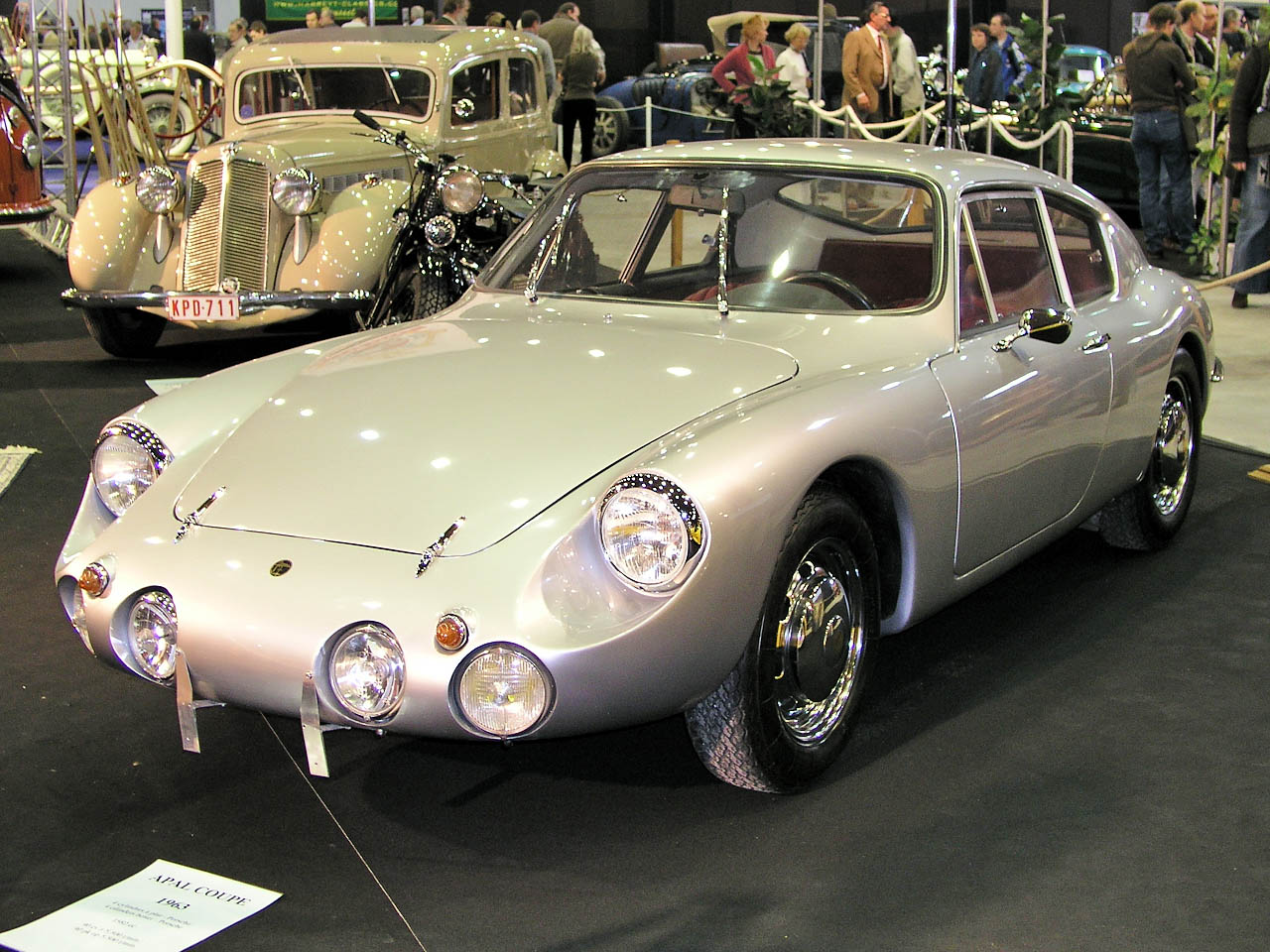 Coupé inspired by a 1959 Porsche Carrera Abarth and based on a VW Beetle chassis, made in Belgium by Application Polyester Armé de Liége; left front-side view